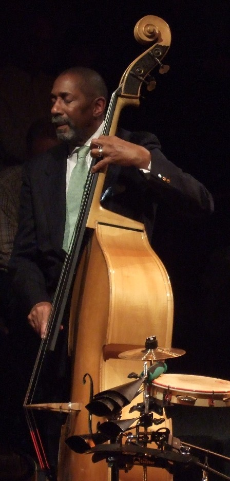 Ron Carter Quartet play at "Altes Pfandhaus" in Cologne.